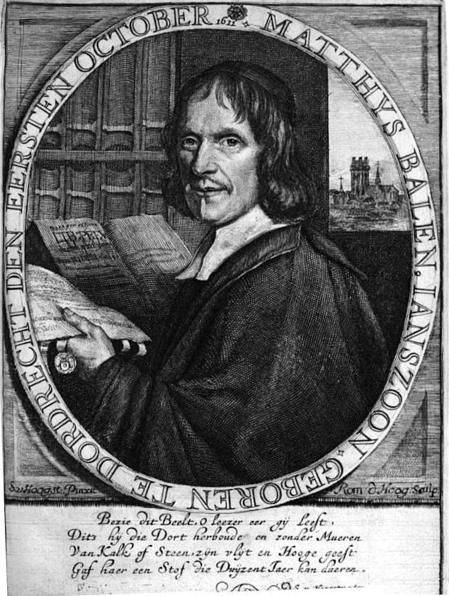 Portrait of Matthys Balen Jansz from his book Beschryvinge der stad Dordrecht